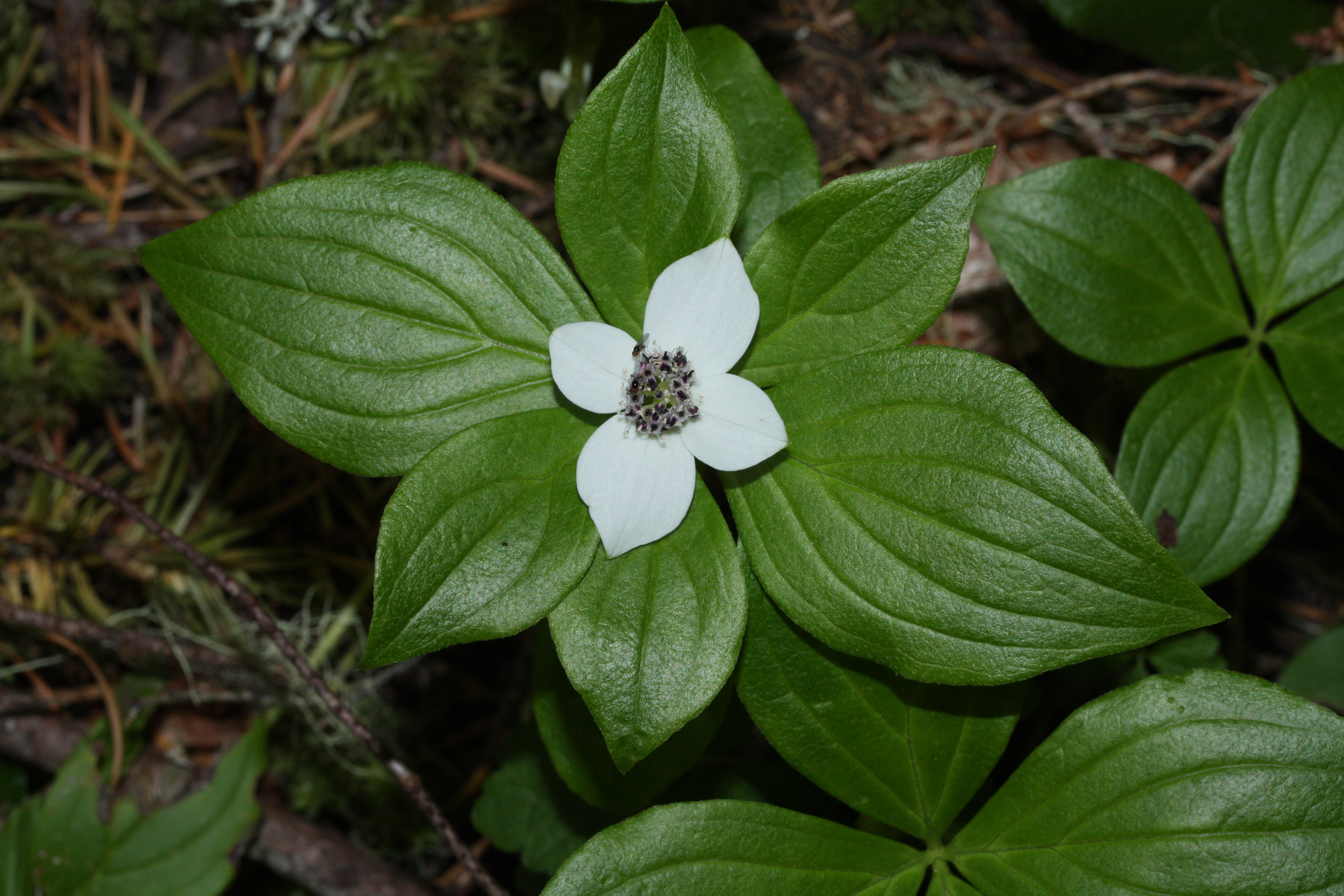 Bunchberry Dogwood